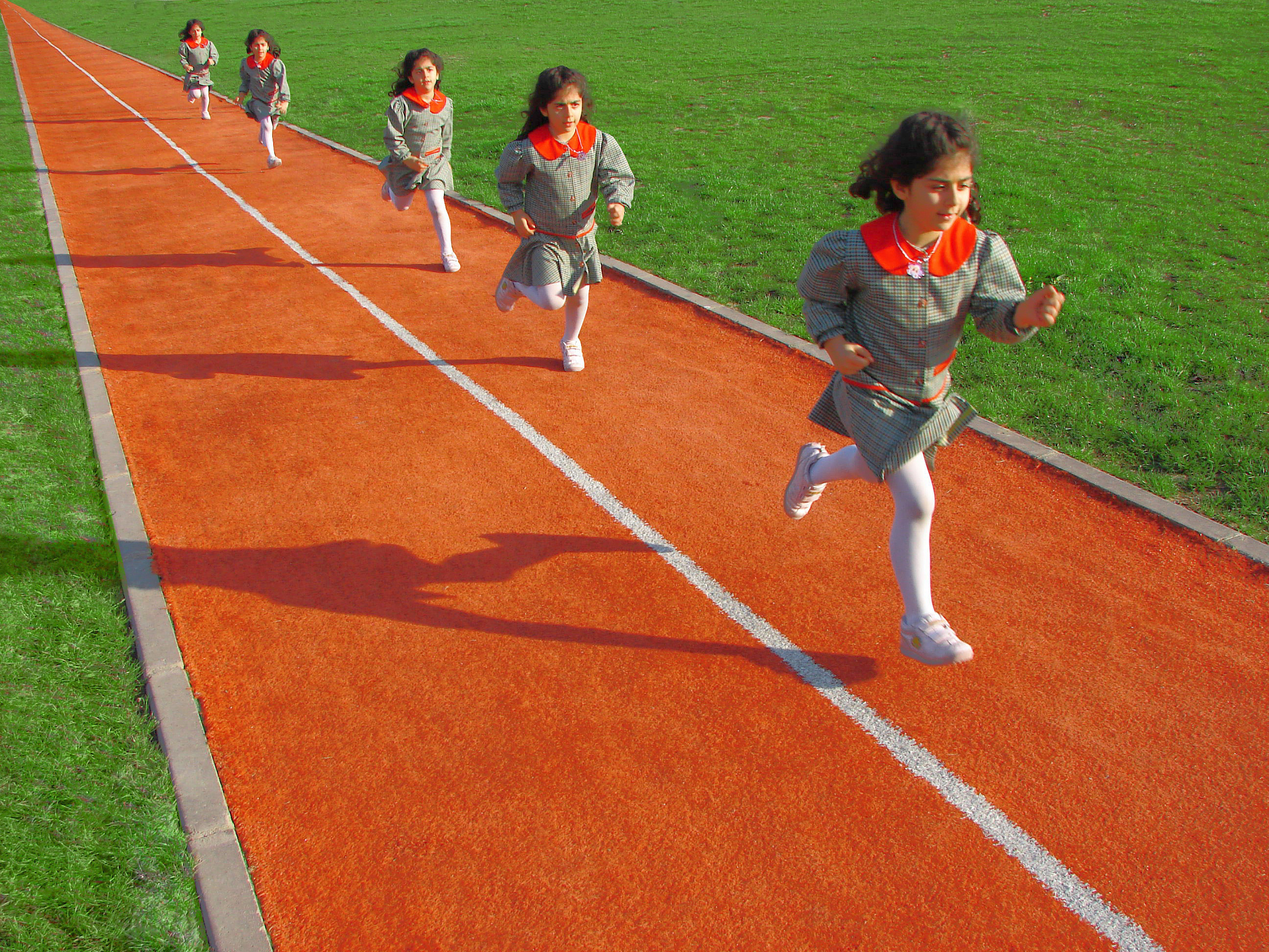 Running